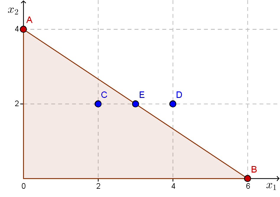 Budget line